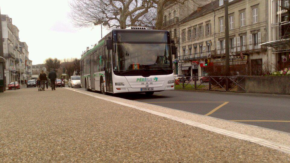 Bus standard